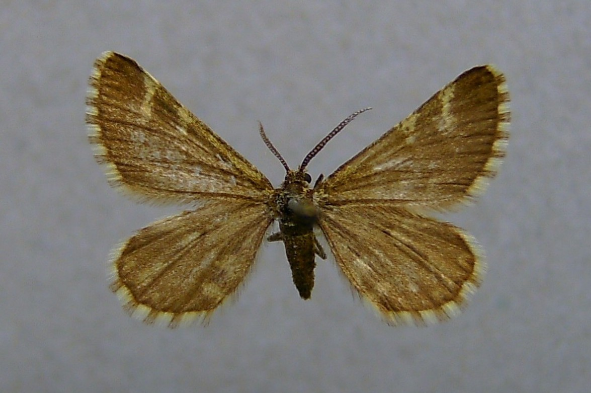 Narraga fasciolaria male, Berlin-Spandau, Germany